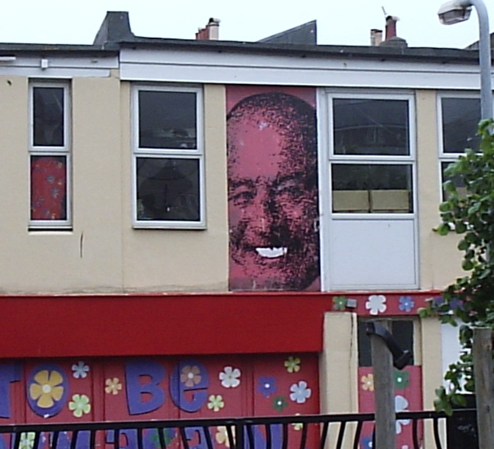 Image of the British comedian Mike Reid on the façade of a house in Brighton, UK.